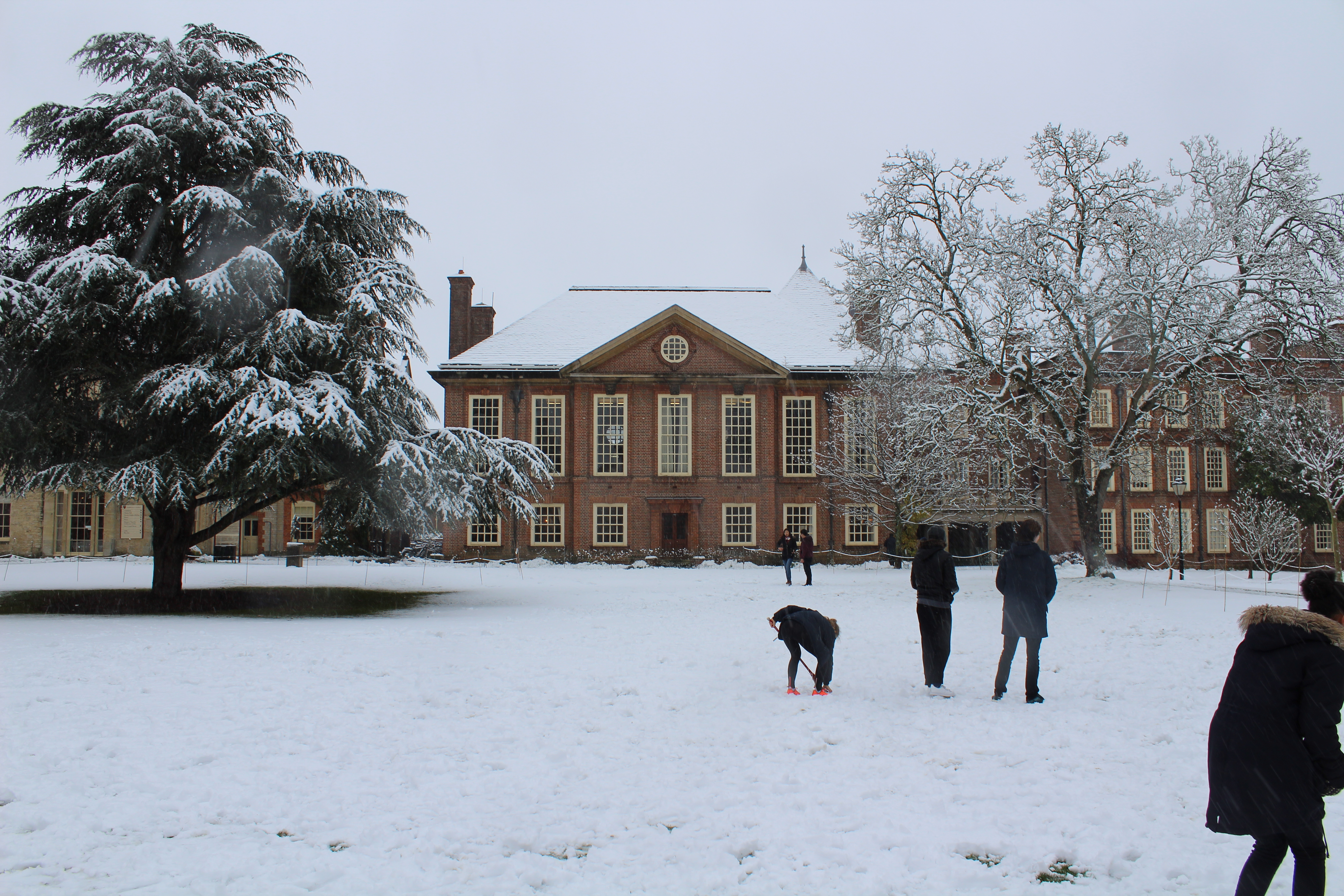 Somerville College Hall in snow